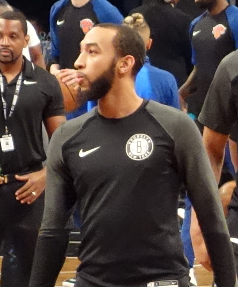 Brooklyn Nets players warming up prior to the NBA Preseason game between the Brooklyn Nets and the New York Knicks at the Barclays Center on October 3, 2018. In the background is the MSG Network crew including Walter "Clyde" Frazier (pink suit).